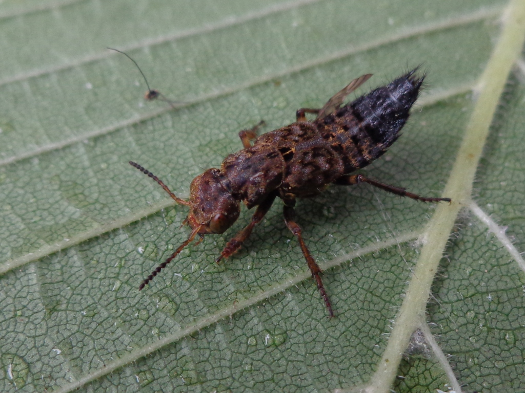 Ontholestes murinus. Found in Riga town, Latvia